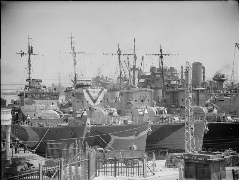 The Royal Navy during the Second World War Four British Hunt class destroyers docked in Algiers Harbour. Left to right: HMS WHADDON, HMS LAUDERDALE, HMS BICESTER and HMS ZETLAND. The bridge structure of HMS LAUDERDALE is decorated with a prominent V sign.